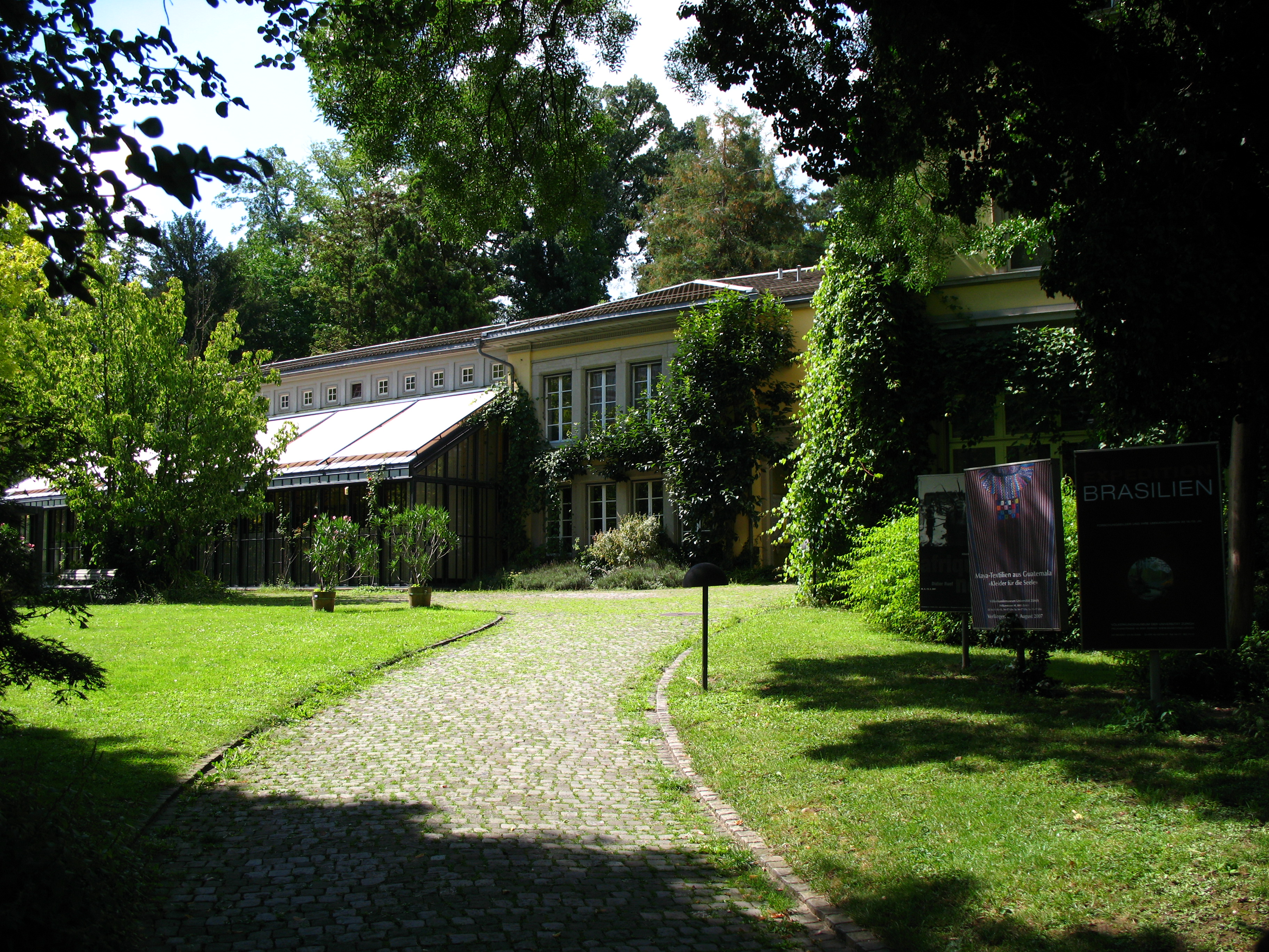 Ethnographic museum, Zürich, Switzerland